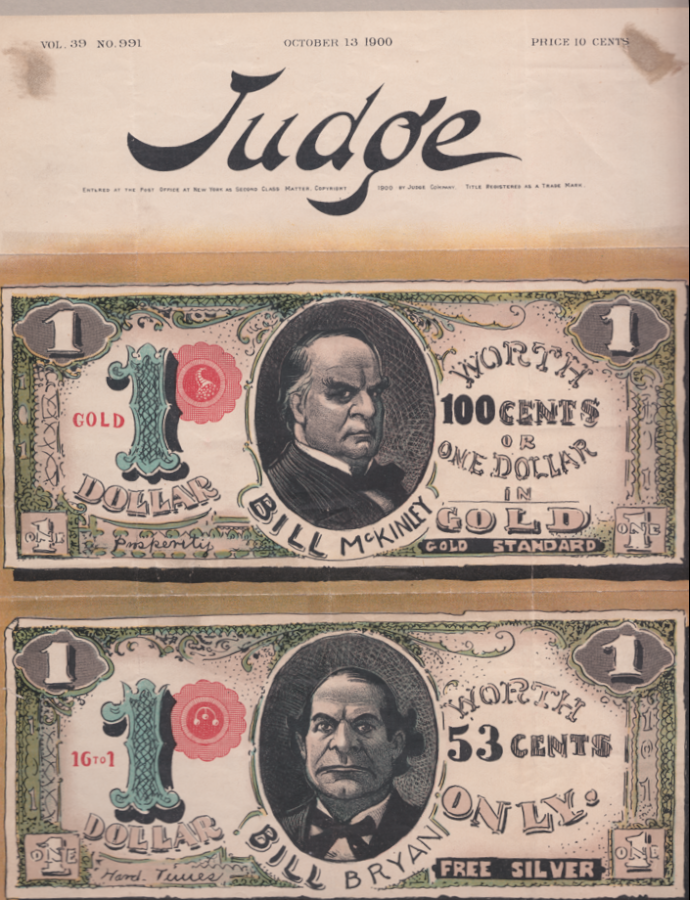 Front cover of Judge on the currency question in the 1900 election. Candidates William McKinley and William Jennings Bryan are caricatured as a pair of banknotes, "Two Bills". McKinley's is labeled "prosperity" and "Gold standard". Bryan's "Free Silver" is labeled as being worth on 53 cents and captioned "Hard times".